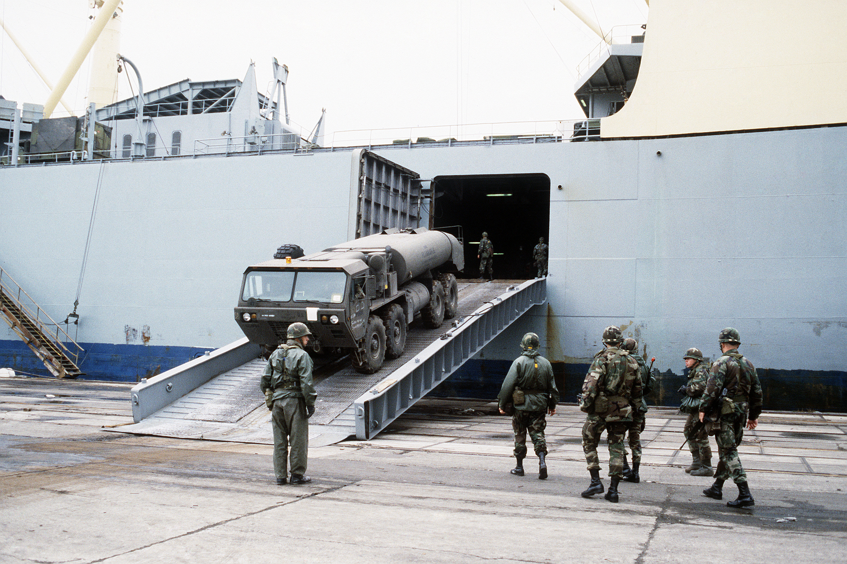 An M978 tactical fuel truck is offloaded from the vehicle cargo ship SS ADMIRAL WILLIAM M. CALLAGHAN (T-AKR 1001) in Antwerp. The truck will be used in SPEARPOINT '84, a phase of Exercise REFORGER '84